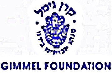 The Gimmel Foundation logo